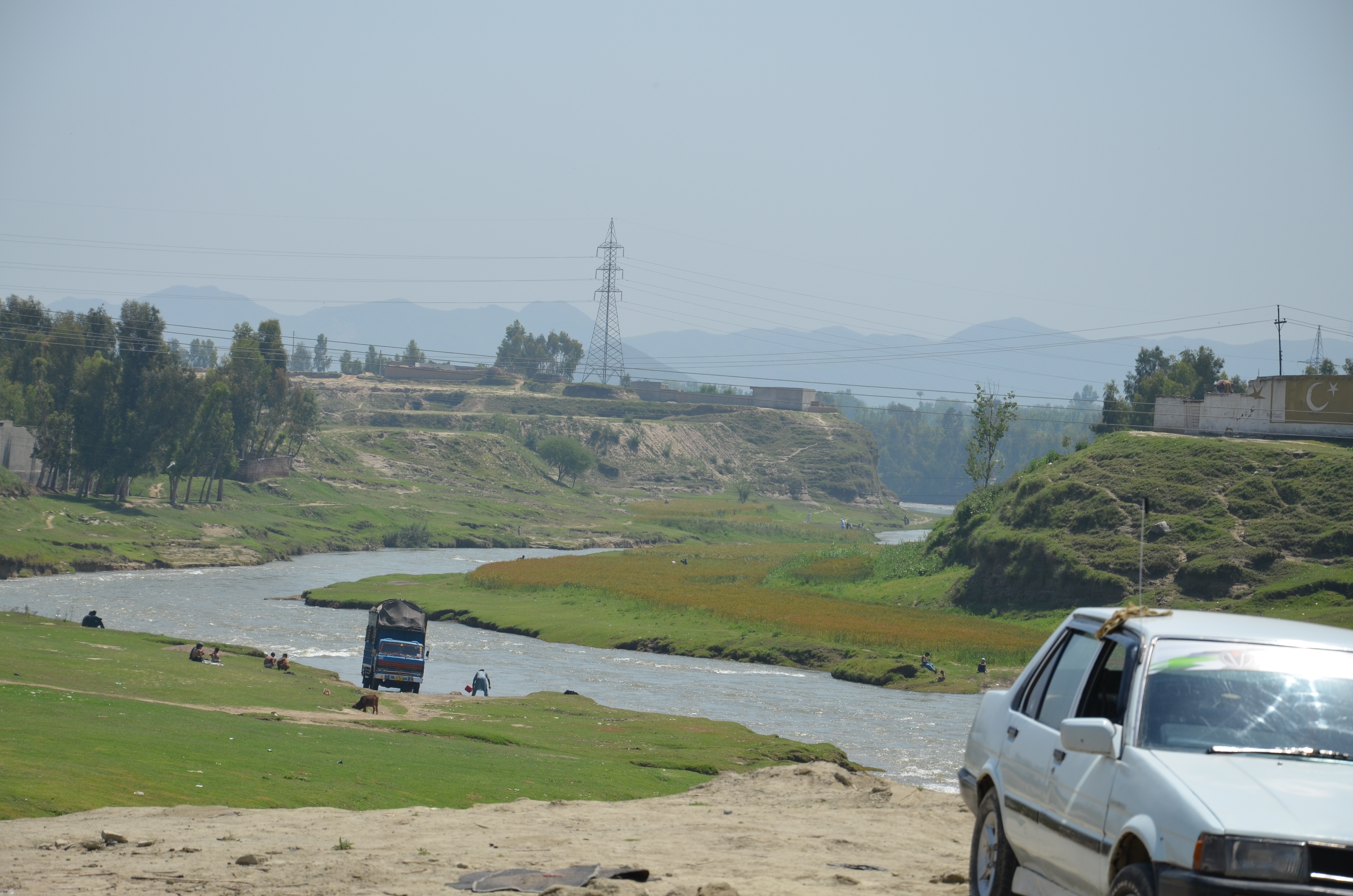 Photographed from over the Jalal Bridge by zahid usman